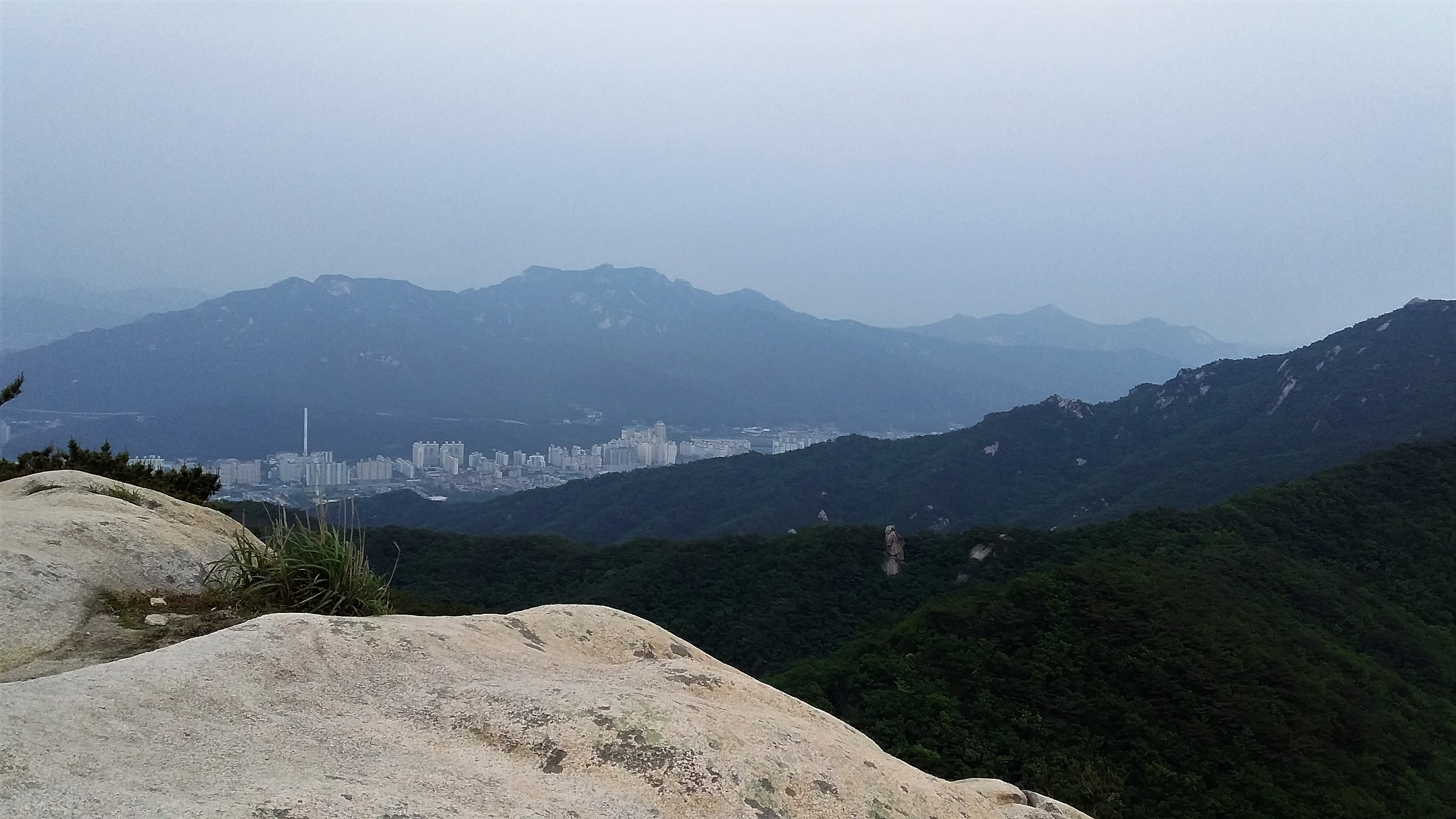 Dobongsan Mountain, Uijeongbu city and Suraksan Mountain viewed from Mt. Sapae.